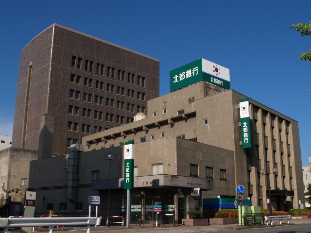 Hokuto Bank head office, Akita, Akita prefecture, Japan.